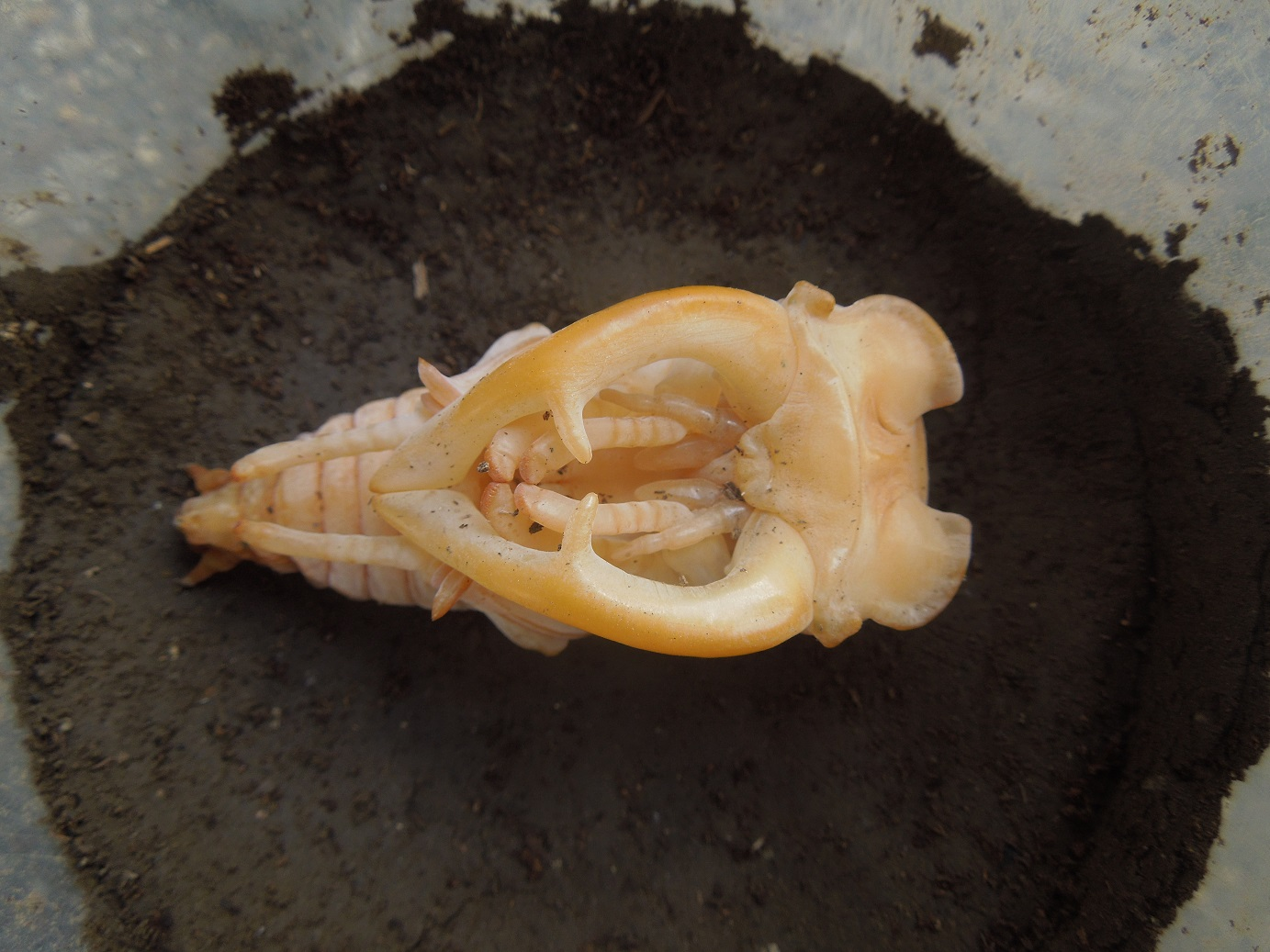 Pupa of Lucanus cervus judaicus